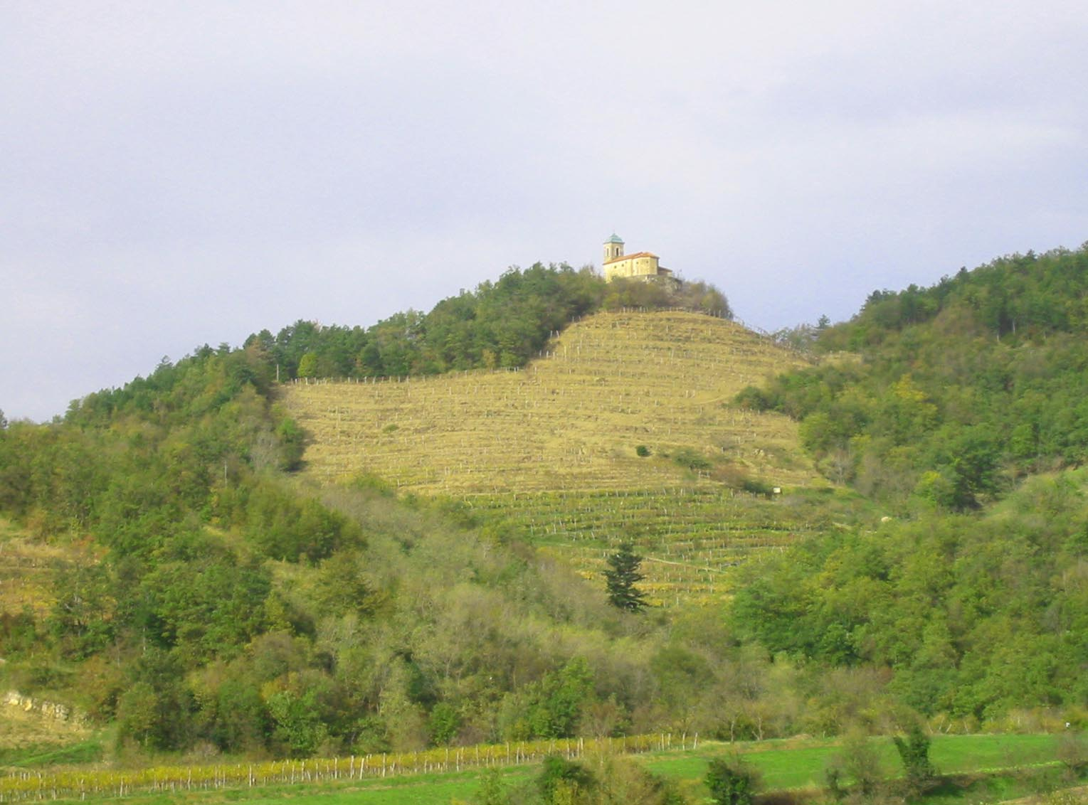 Church of Maria of the snow (Marija Snežna) above Goče, Slovenia photo:Ziga 10:56, 16 April 2007 (UTC)